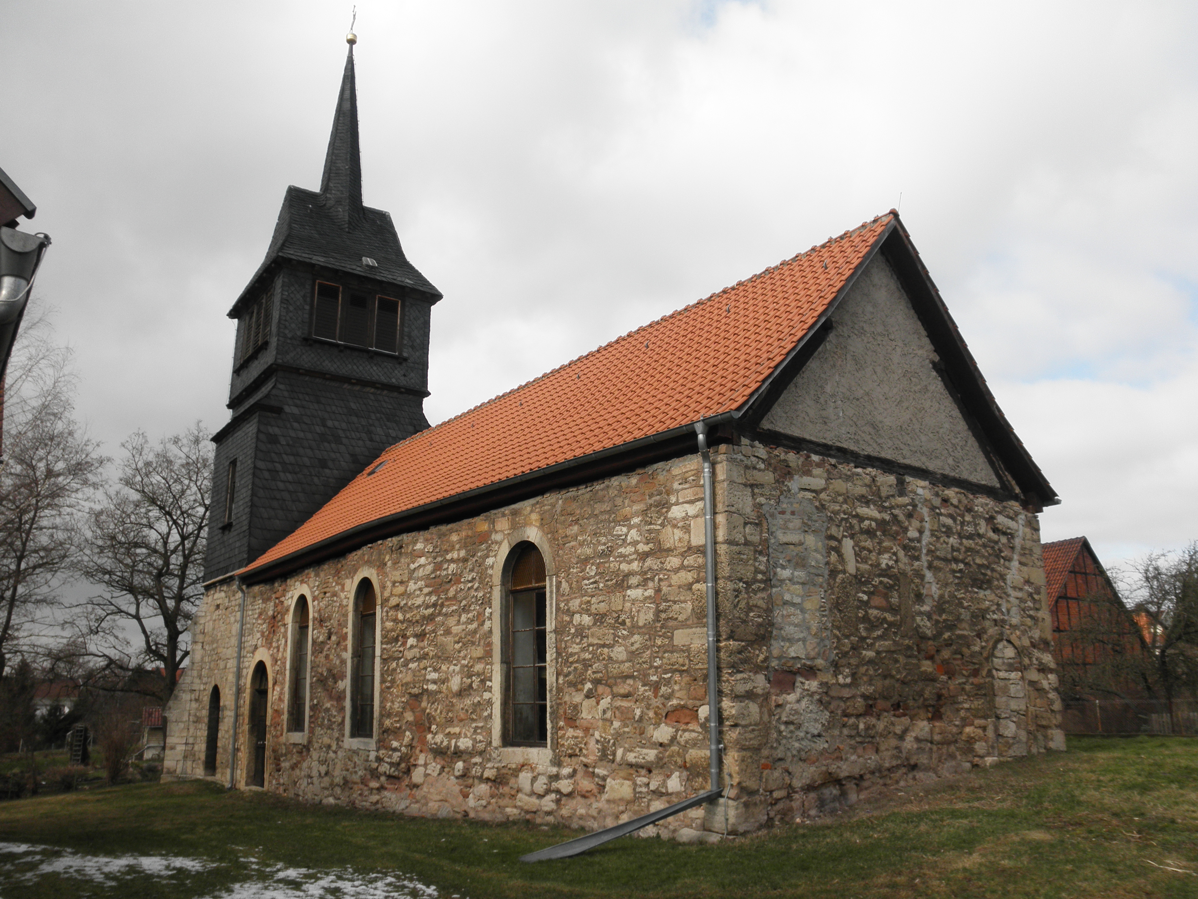 Church in Wollersleben (Nohra) in Thuringia